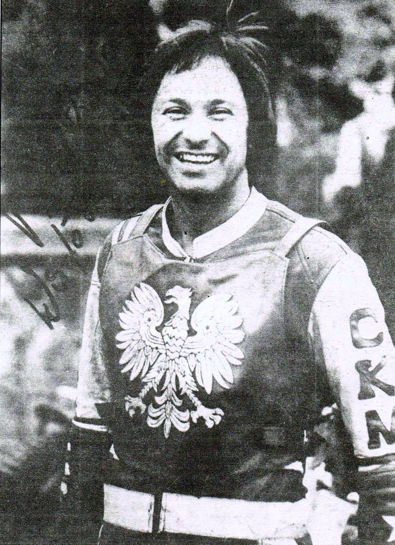 Józef Jarmuła. Polish speedway rider.